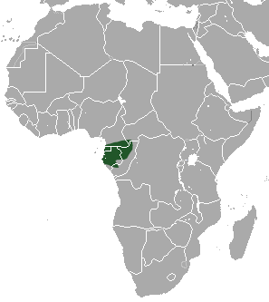 Bates's Shrew (Crocidura batesi) range